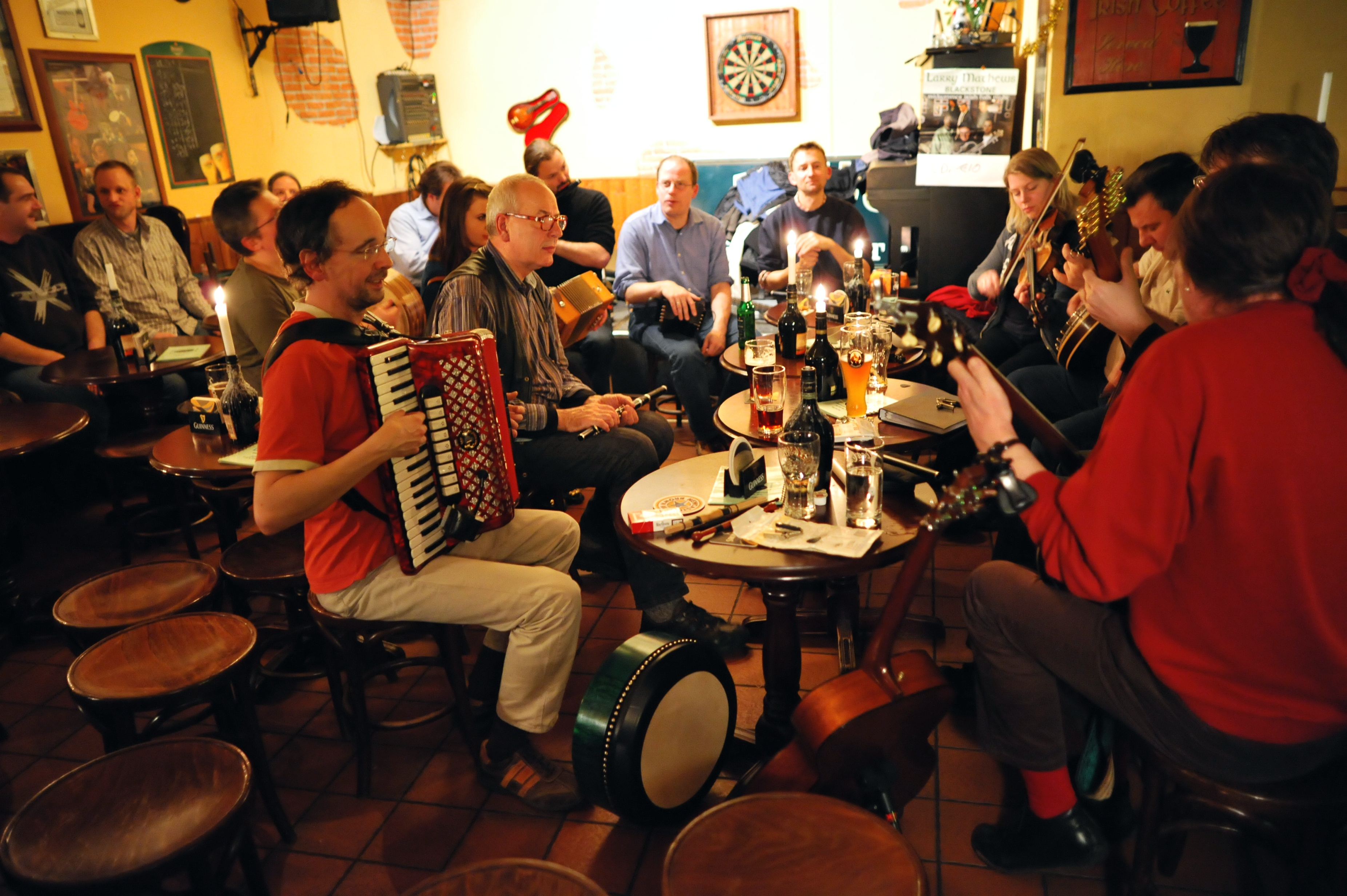 Irish Folk Session, The Old Dubliner Hamburg